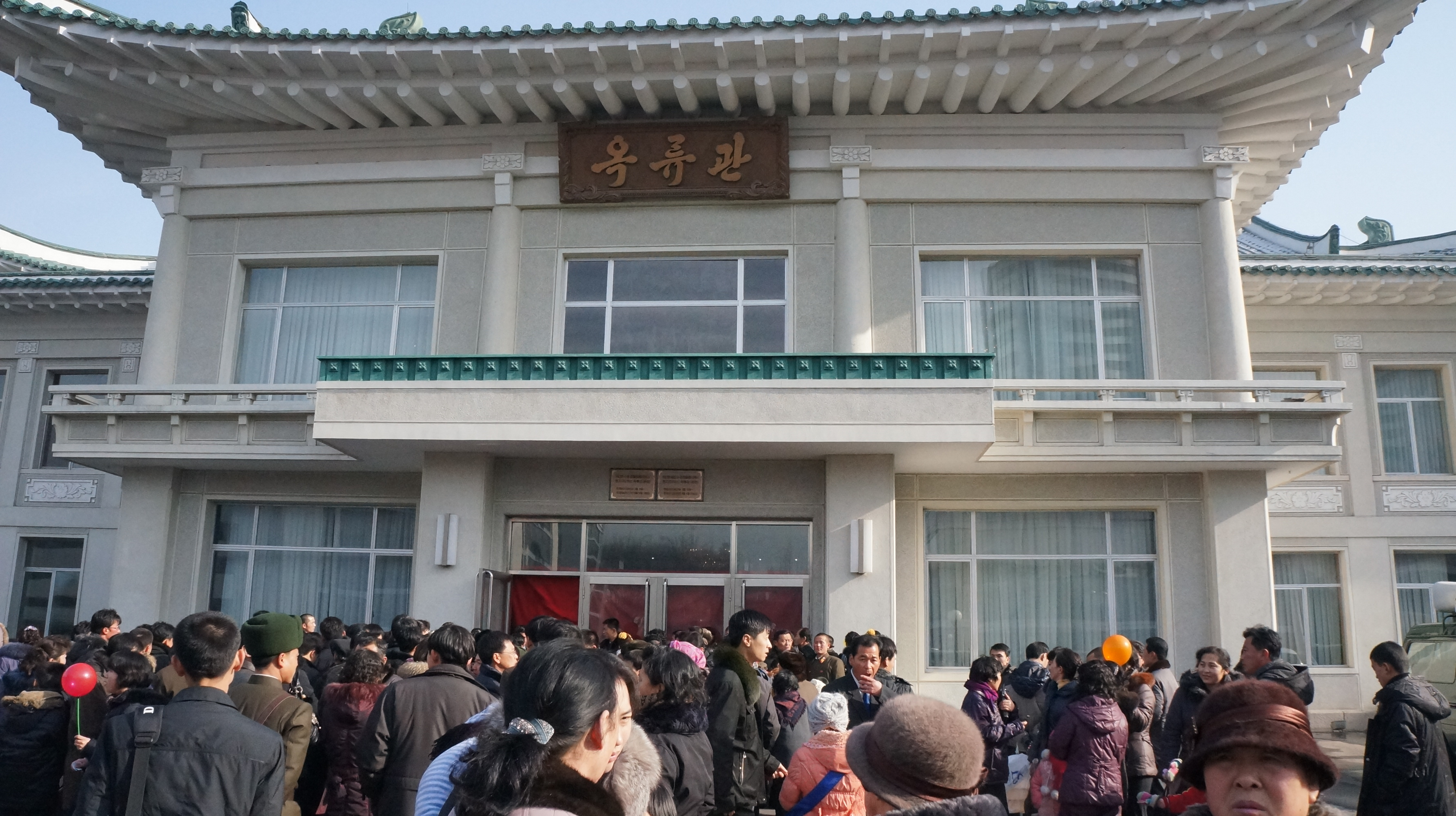 Waiting in line in front of the famous "Okryugwan" Restaurant 옥류관 on New Year's day. Cold noodles 랭면 is a typical New Year's dish in North Korea